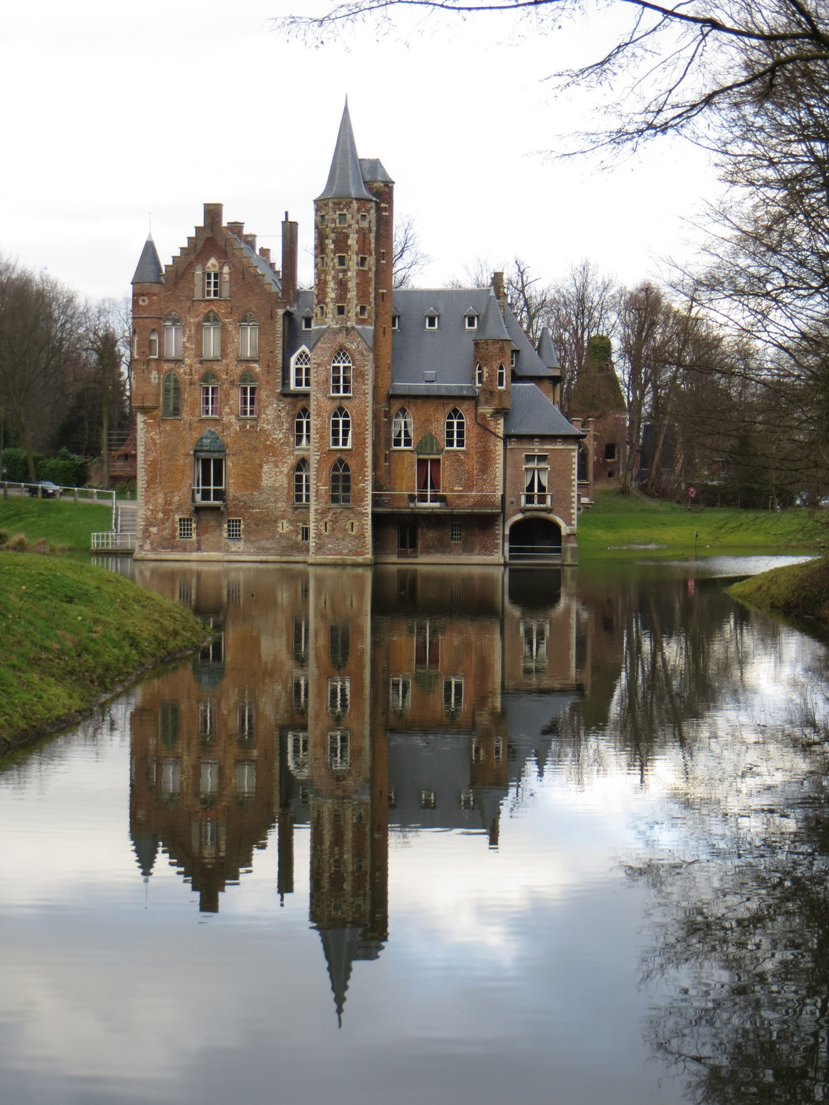 Kasteel van Wissenkerke (Bazel)